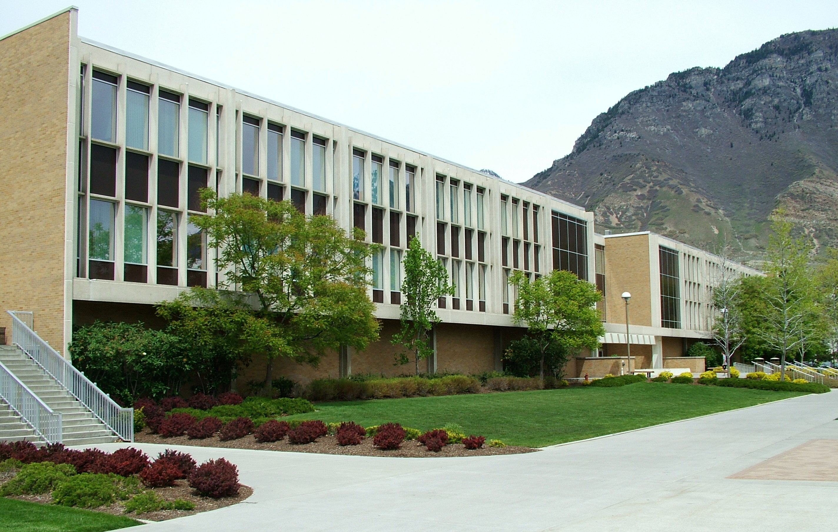 The Franklin S. Harris Fine Arts Center is located at the heart of Brigham Young University's Provo, Utah, campus.